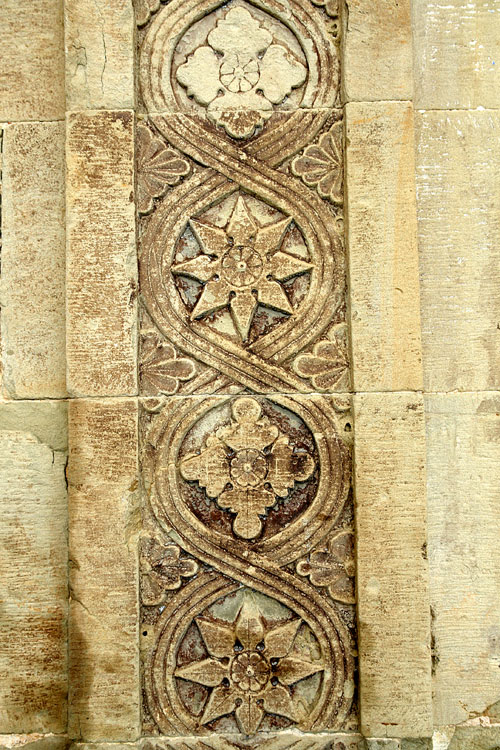 Monastery of St Anton of Martkopi In a several dozen kilometers from Tbilisi Georgia